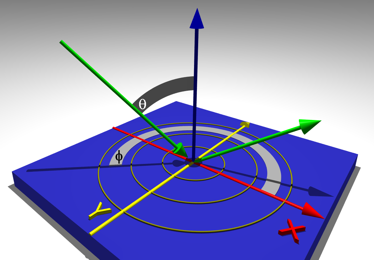 This illustration shows a polar coordinate system for specification of the direction of vectors (arrows) originating from or aiming at the origin (i.e. x=y=0). It is especially useful for explanation of the concept of the BDRF (bidirectional reflectance distribution function) with the illuminating beam incident on the plane sample (object of measurement) and one scattered ray emerging from the origin of the coordinate system. The direction of the arraows is specified by an angle of inclination, theta, measured from the surface normal of the sample (blue vertical arrow) and an azimut angle, phi, measured counterclockwise from the positive x-axis. The azimut specifies the direction of the projection of the arrow on the sample plane, here shown by its shadow.